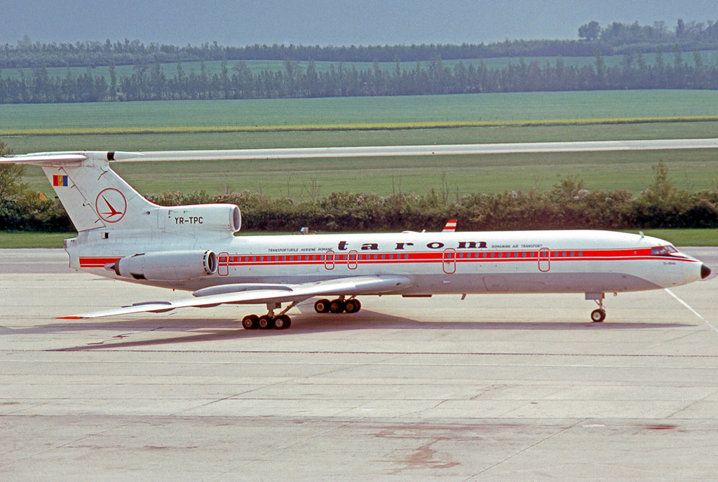 Tupolev Tu-154B YR-TPCX of TAROM at Vienna Schwechat Airport in 1977